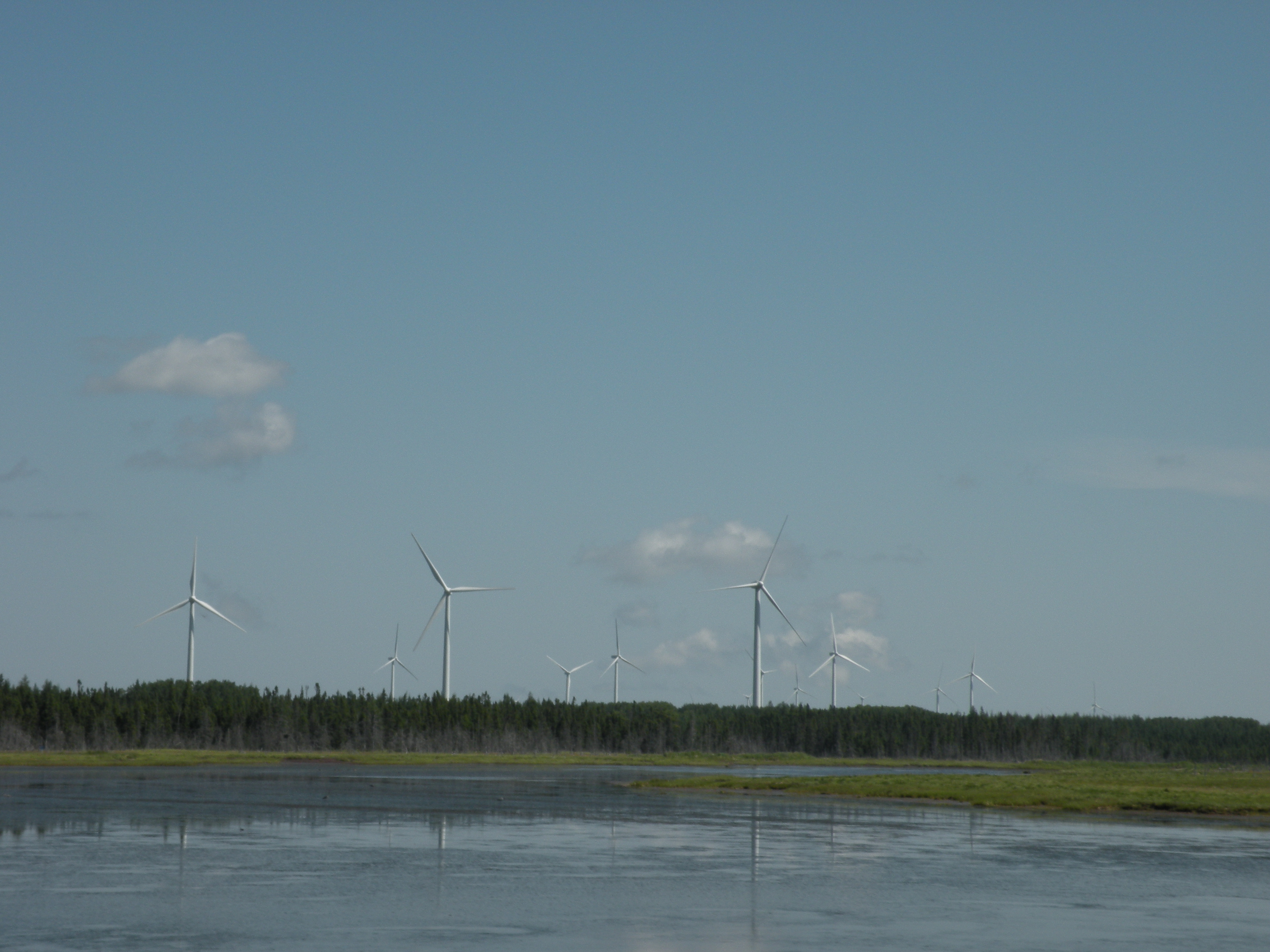 Wind farm in Lamèque, New Brunswick, Canada. Photo taken from road 113.